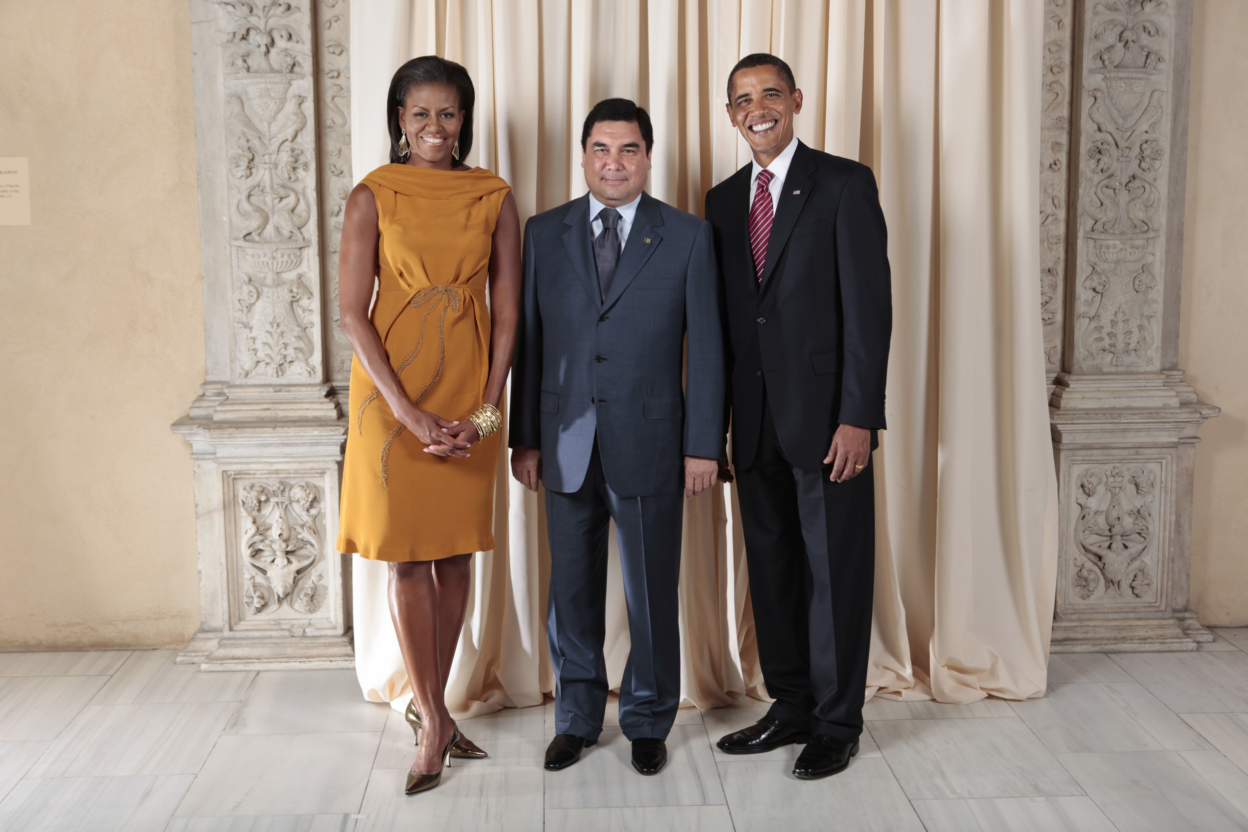 President Barack Obama and First Lady Michelle Obama pose for a photo during a reception at the Metropolitan Museum in New York with Gurbanguly Berdimuhammedov of Turkmenistan.